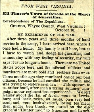 Beginning of newspaper article describing rebel raid on Eli Thayer's colony of Ceredo, in Wayne County, WV, 1864.